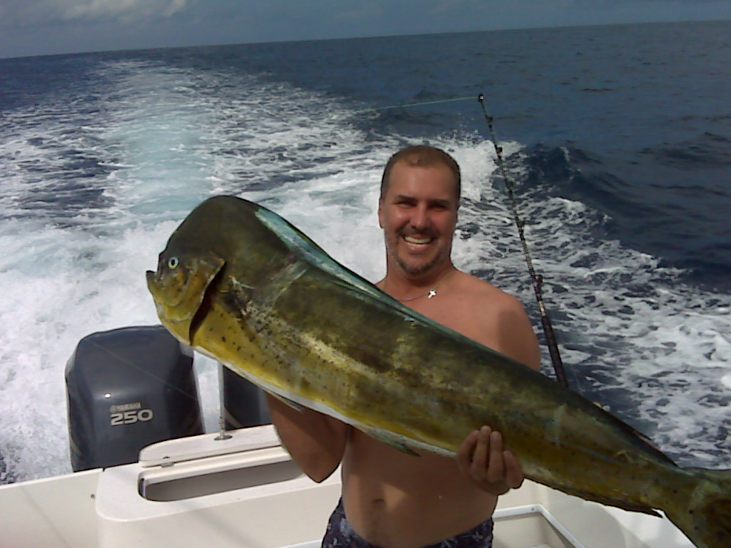 42lbs. Mahi-Mahi caught with artificial lure off San Juan, PR.